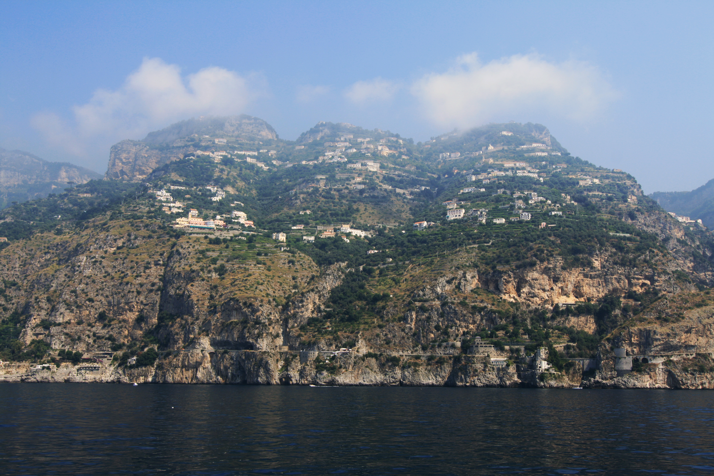 San Michele, Sant'Elia, Comune di Furore, Costa d'Amalfi, Province of Salerno, Italy.